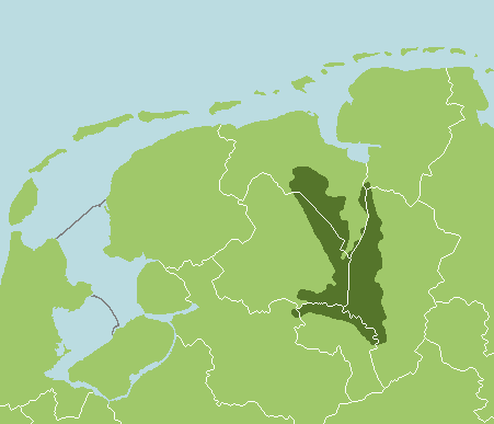 Location of the former Bourtange swamp area Nedersaksies: Stee van t eerdere Boertanger moor